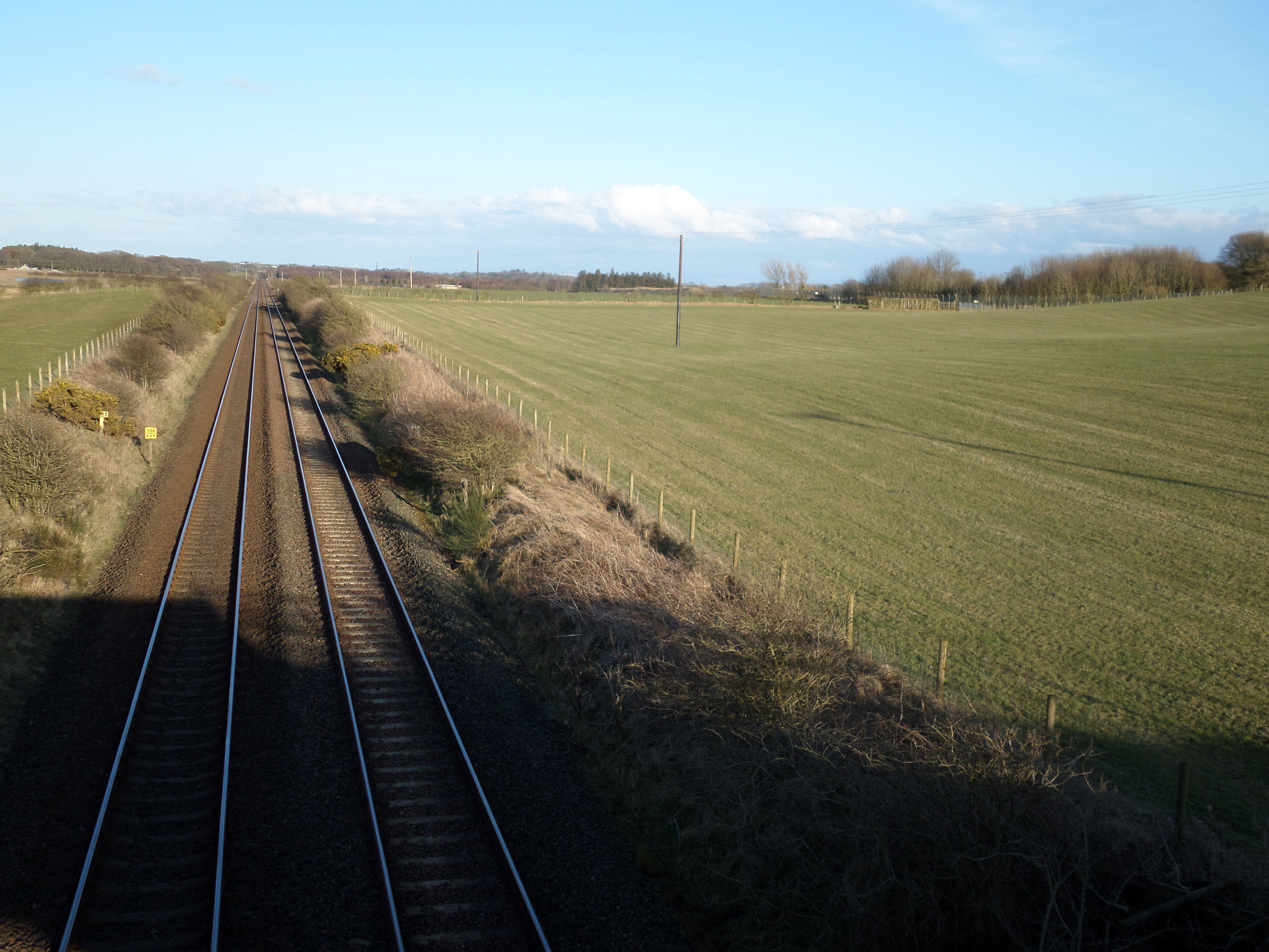 Powfoot Halt site, Dumfries & Galloway, Scotland. Opened by the LMS around 1926 to serve the old MOD plant.